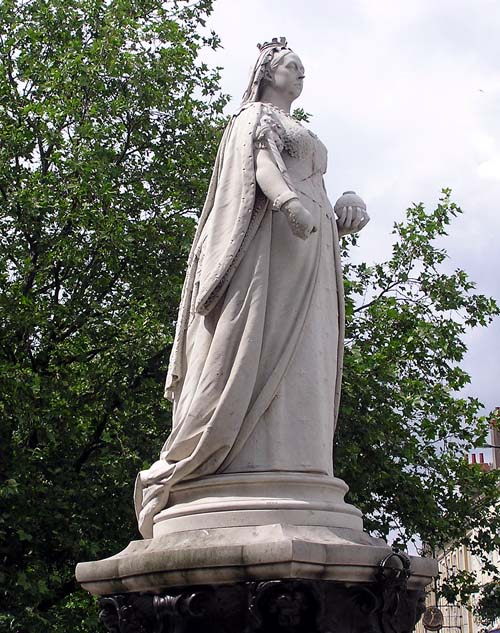 Statue of Queen Victoria in the city centre of Bristol, England. The inscription says simply “Victoria Queen and Empress".